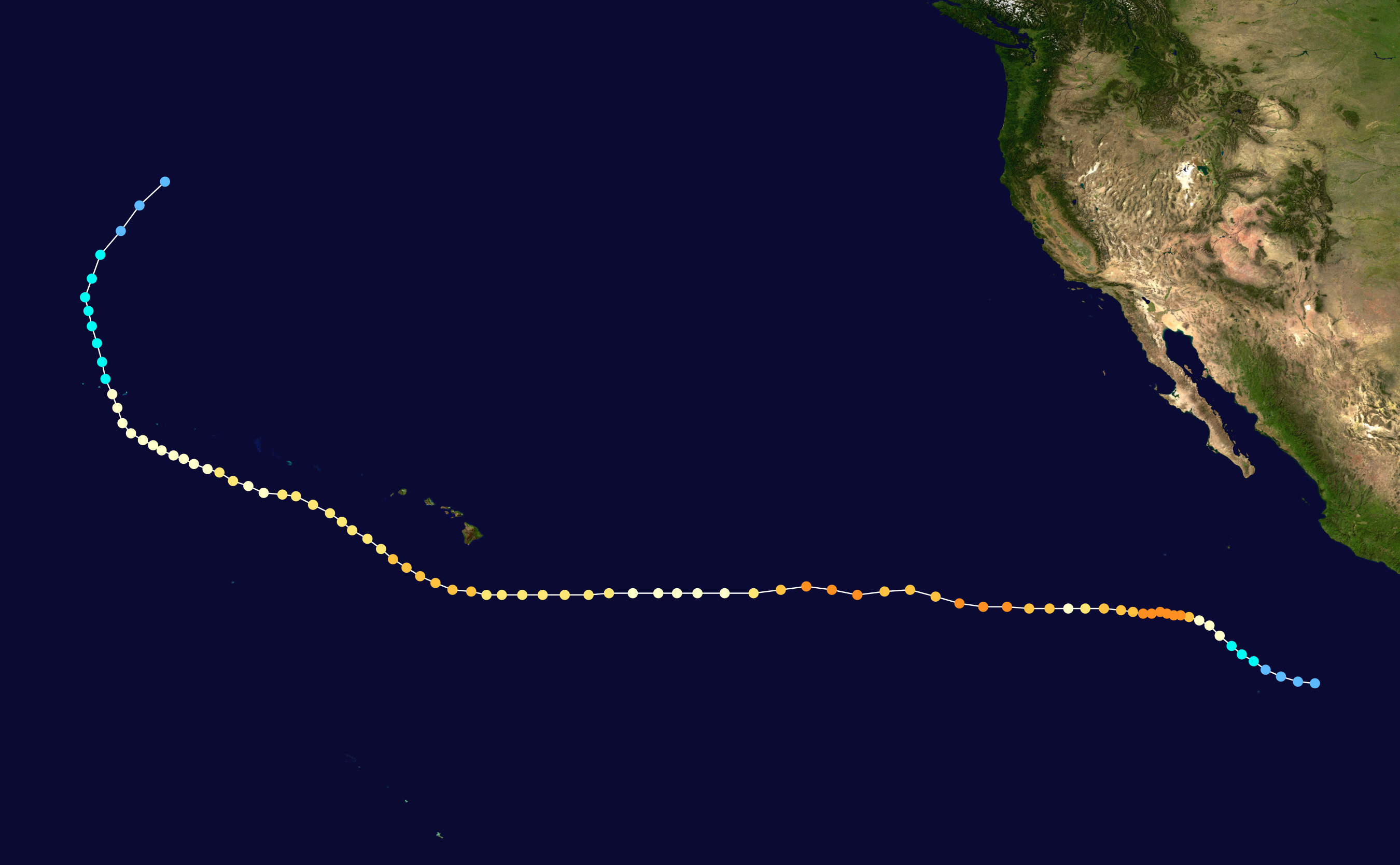 Hurricane Fico (1978) track. Uses the color scheme from the Saffir-Simpson Hurricane Scale.